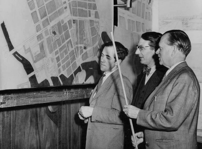 City plan over Nedre Norrmalm. Architect David Helldén, councilor Yngve Larsson, architect Markelius